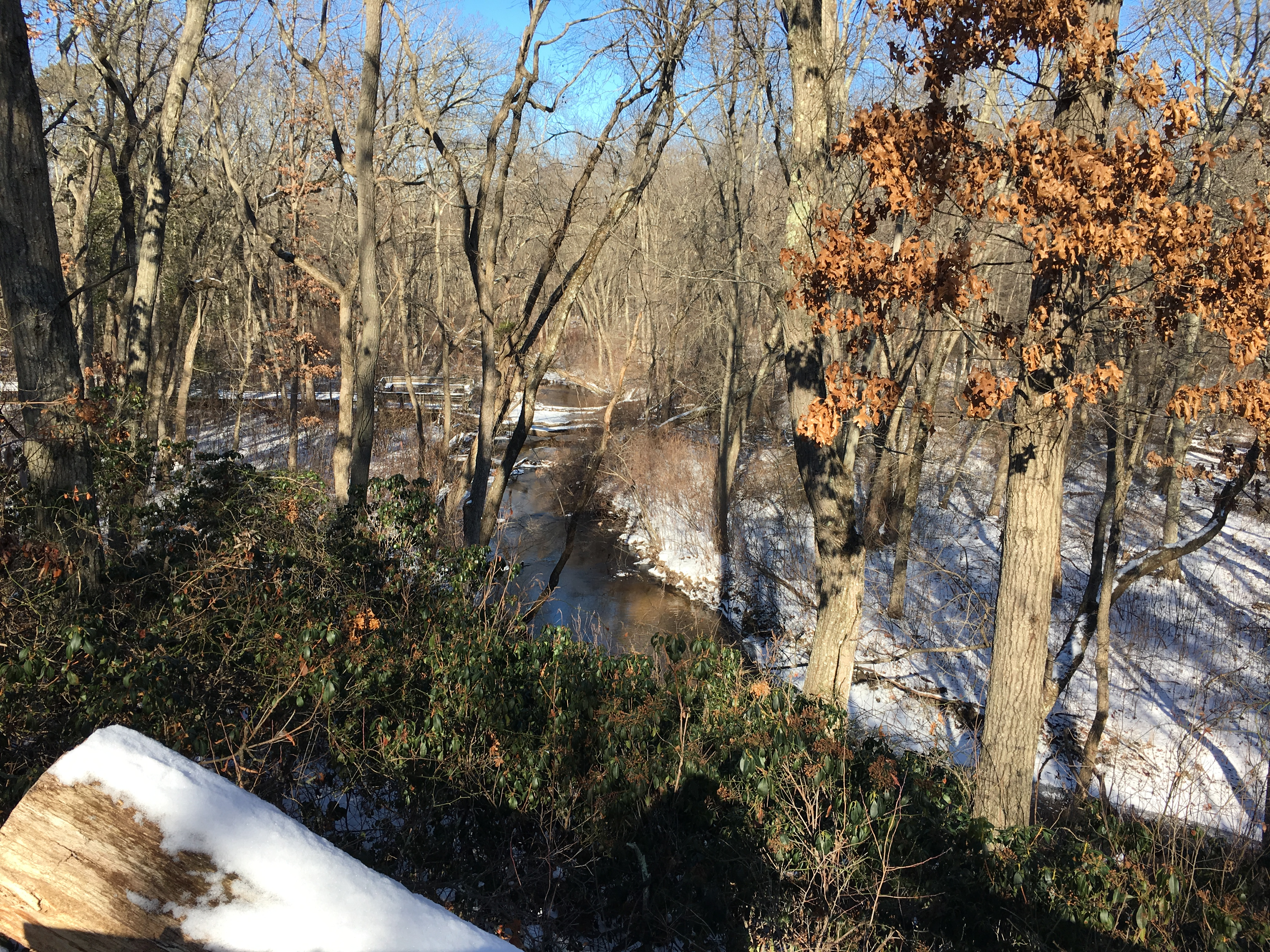 The Toms River, as seen in winter from an overlook at the Forest Resource Education Center in Jackson Township, New Jersey.